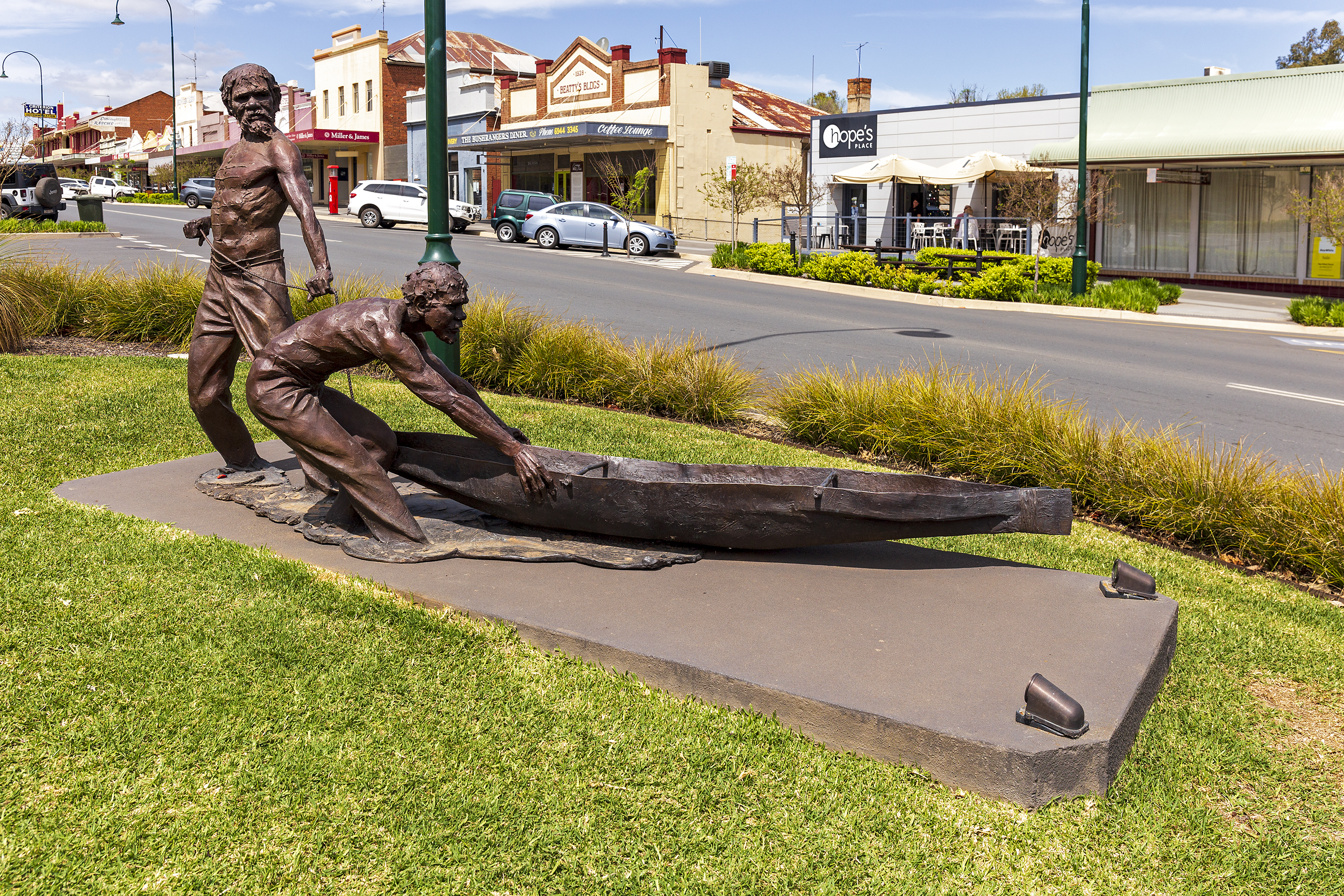 Yarri and Jacky Jacky sculpture in Gundagai, known as "The Great Rescue of 1852" created by Darien Pullen and unveiled on 10 June 2017.